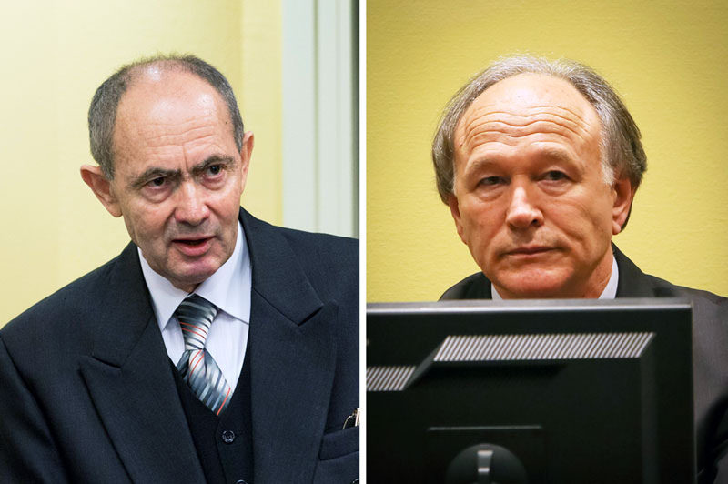 Arrests of Z. Tolimir and of V. Đorđević. ICTY.